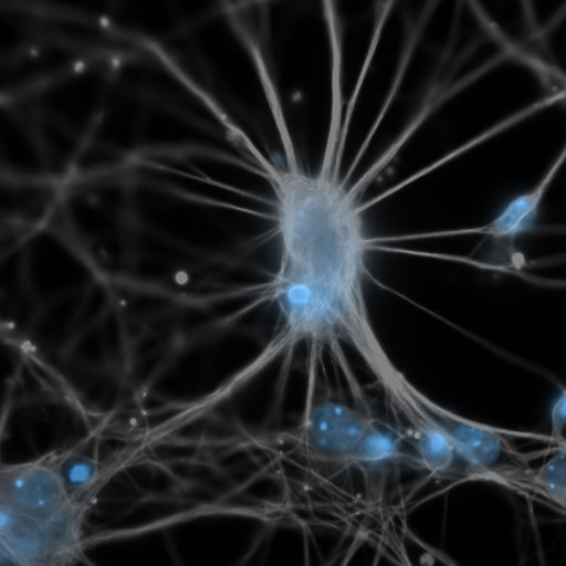 A 20X image of a cultured mouse cortical neuron in cell culture